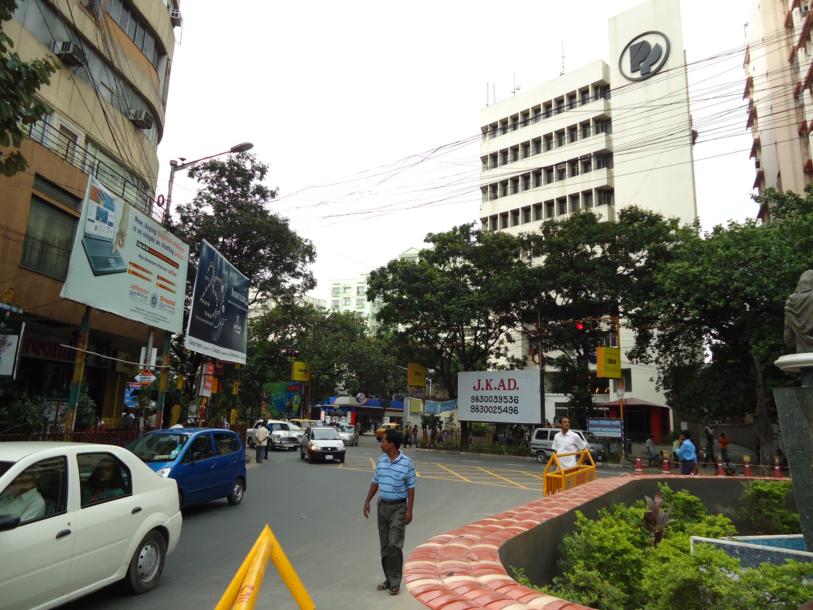 Park Plaza office block